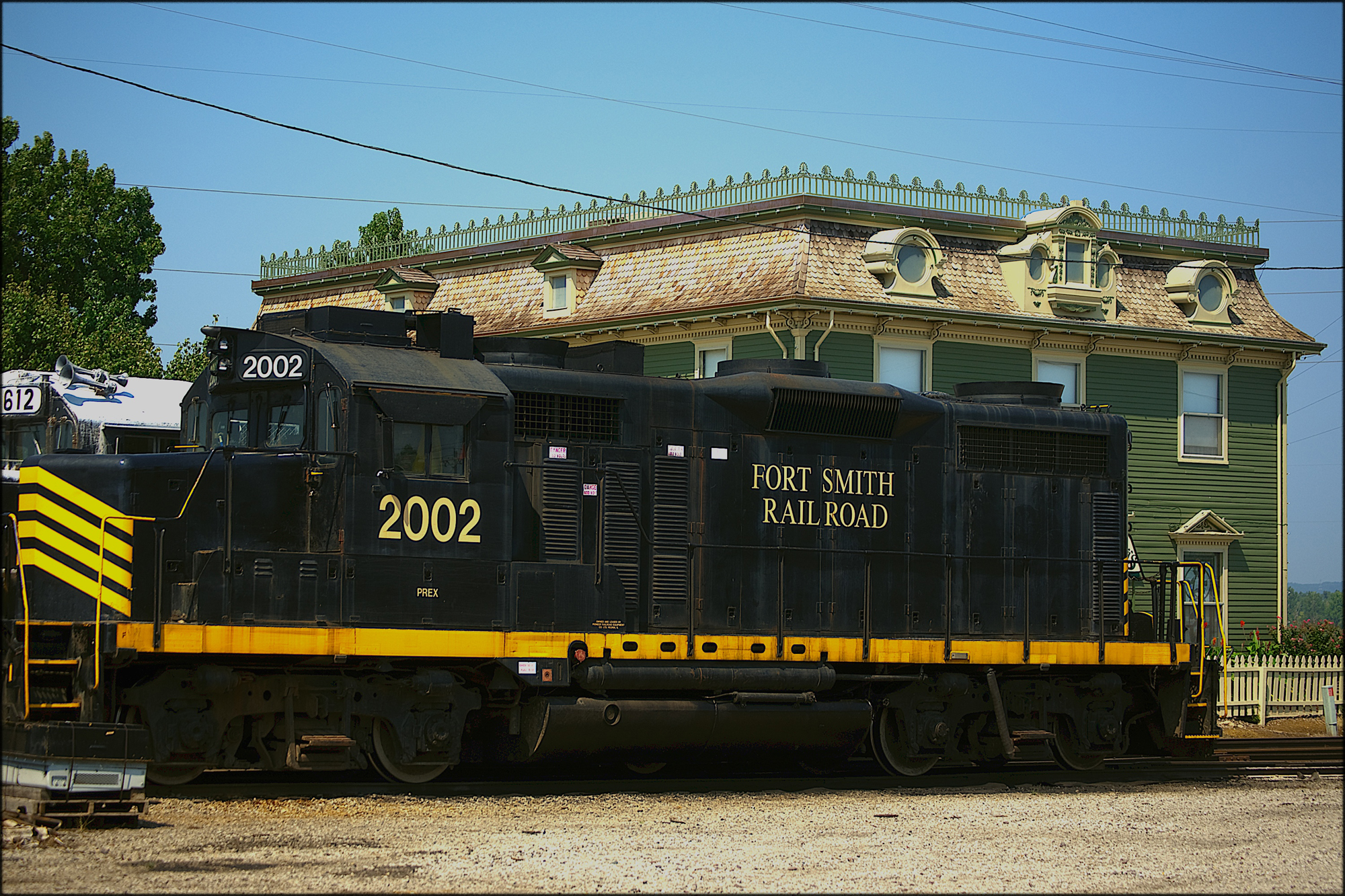 An EMD GP20 of the Fort Smith Railroad is parked for the weekend in front of Miss Laura's Visitors Center and former bordello in downtown Fort Smith, Arkansas. You have to wonder if Miss Laura's was a popular crew change point in days gone by...